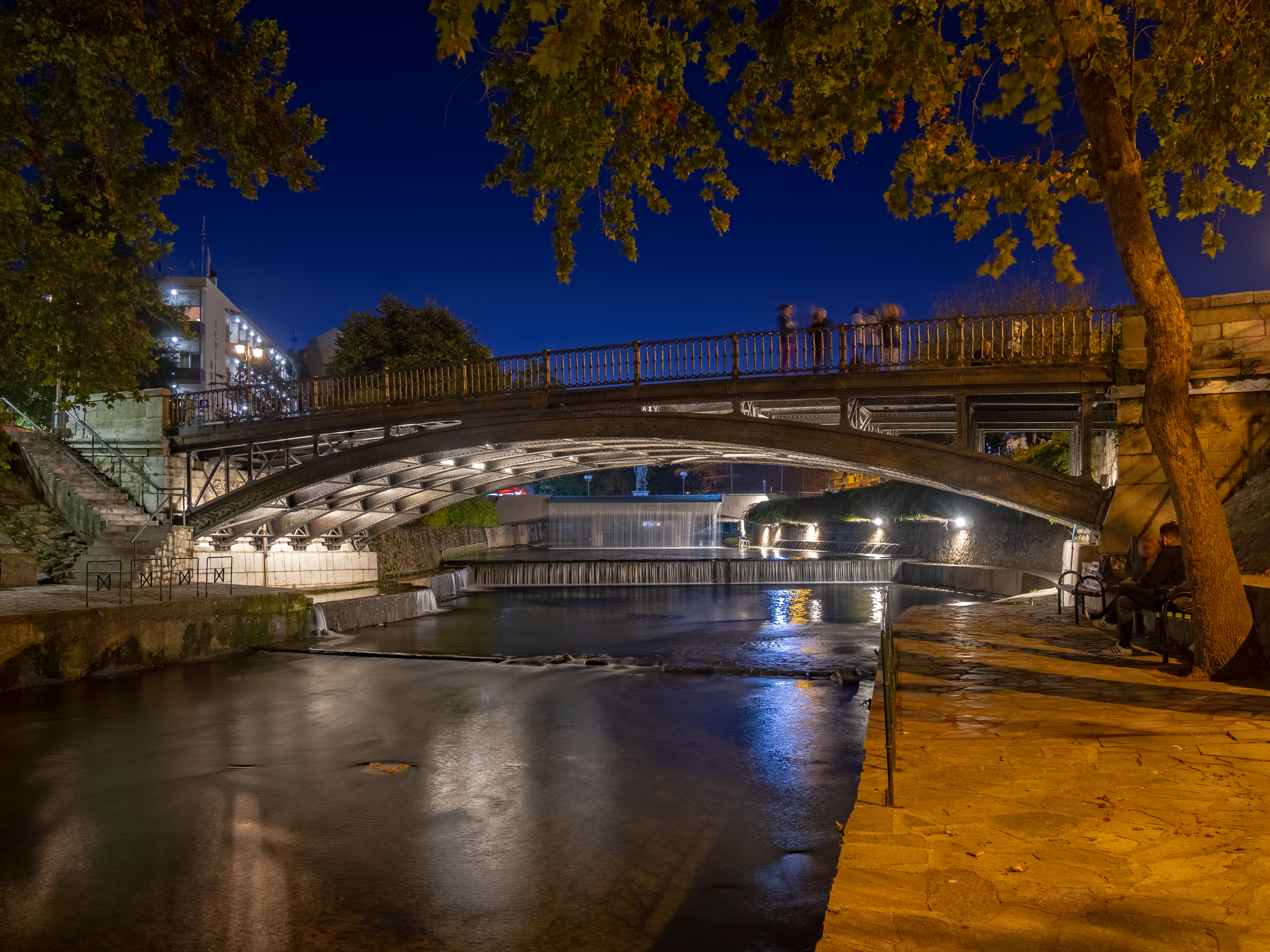 The Central Brigde of Trikala, an iron arch bridge built in 1886 over Litheos river.